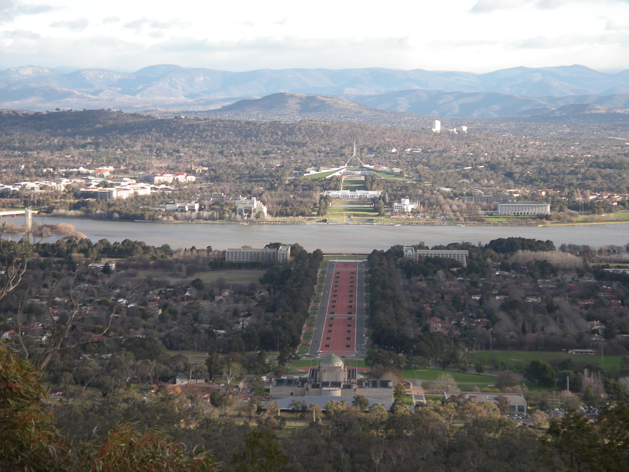 Axis from the Australian War Memorial to Parliament House, from Mt Ainslie, Canberra